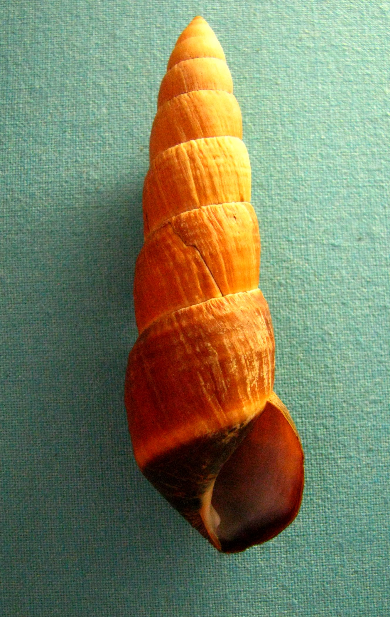 Amastridae Endemic to the Hawaiian Islands; Extinct Bishop Museum, Honolulu, Hawaiʻi